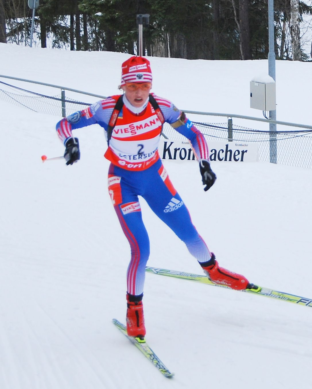 Russian biathlete Albina Akhatova during the World Championships in Östersund 2008.